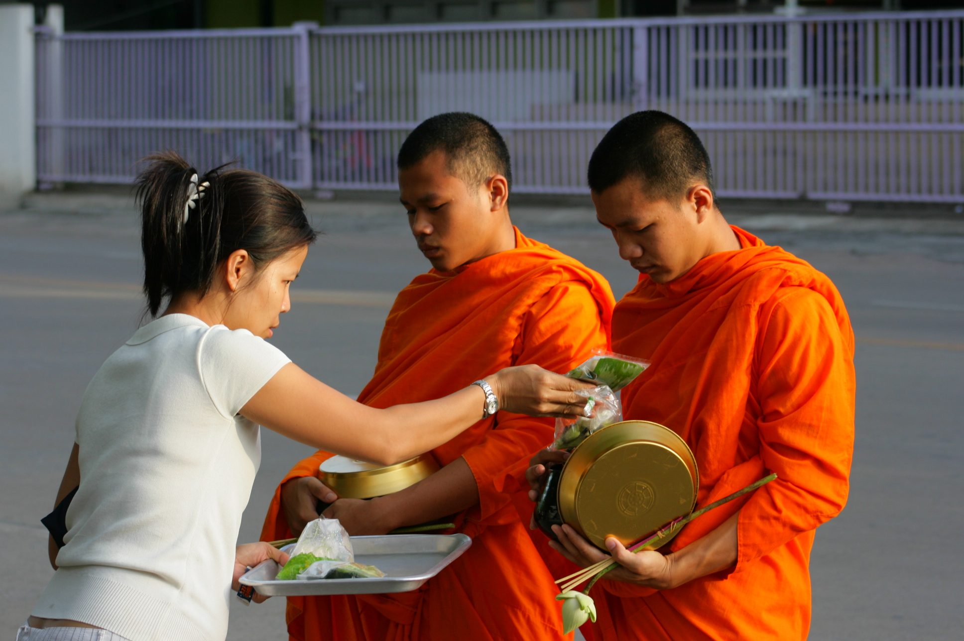 Buddhist monks receives food from the Buddhist, Thailand